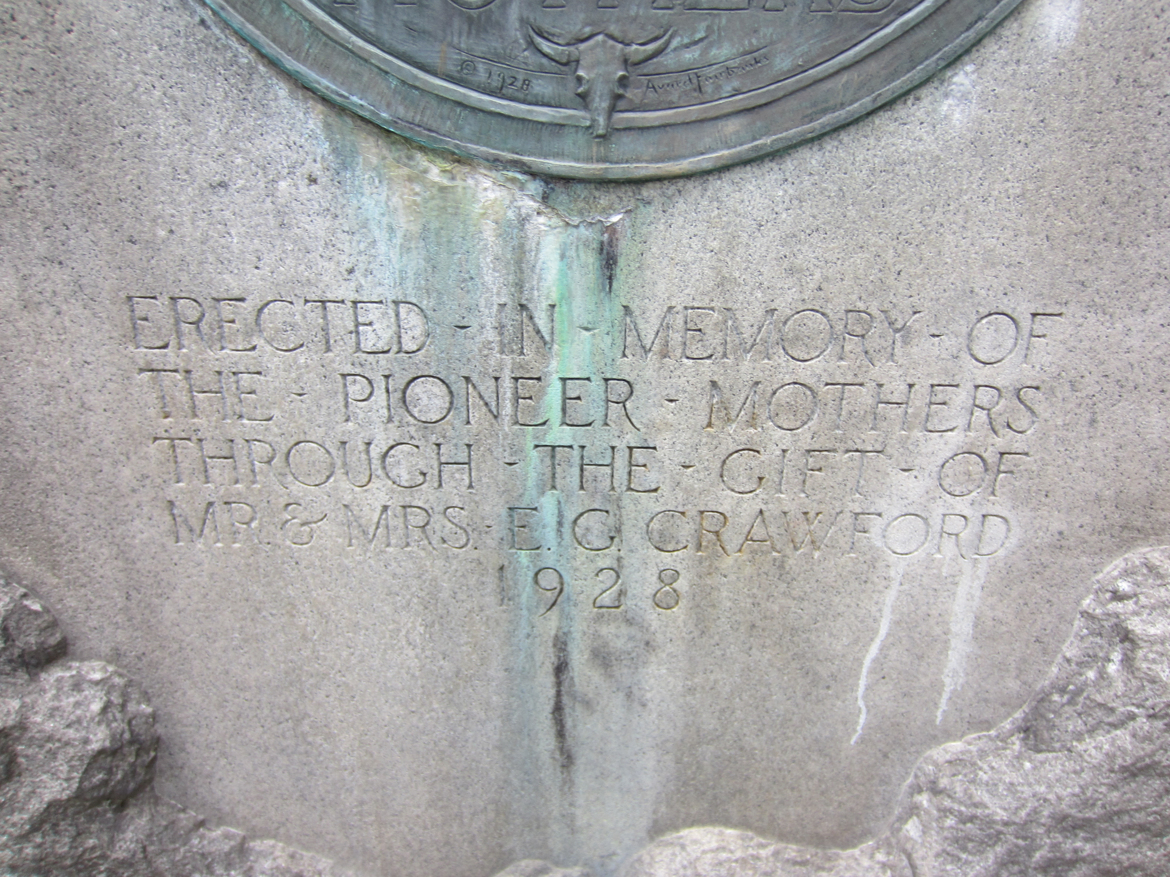 The Pioneer Memorial by Avard Fairbanks in Esther Short Park in Vancouver, Washington in September 2013